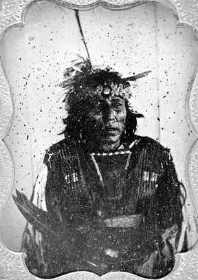 Ambrotype of Mea-to-sa-bi-tchi-a, or Smutty Bear, a Yankton Dakota (Sioux).